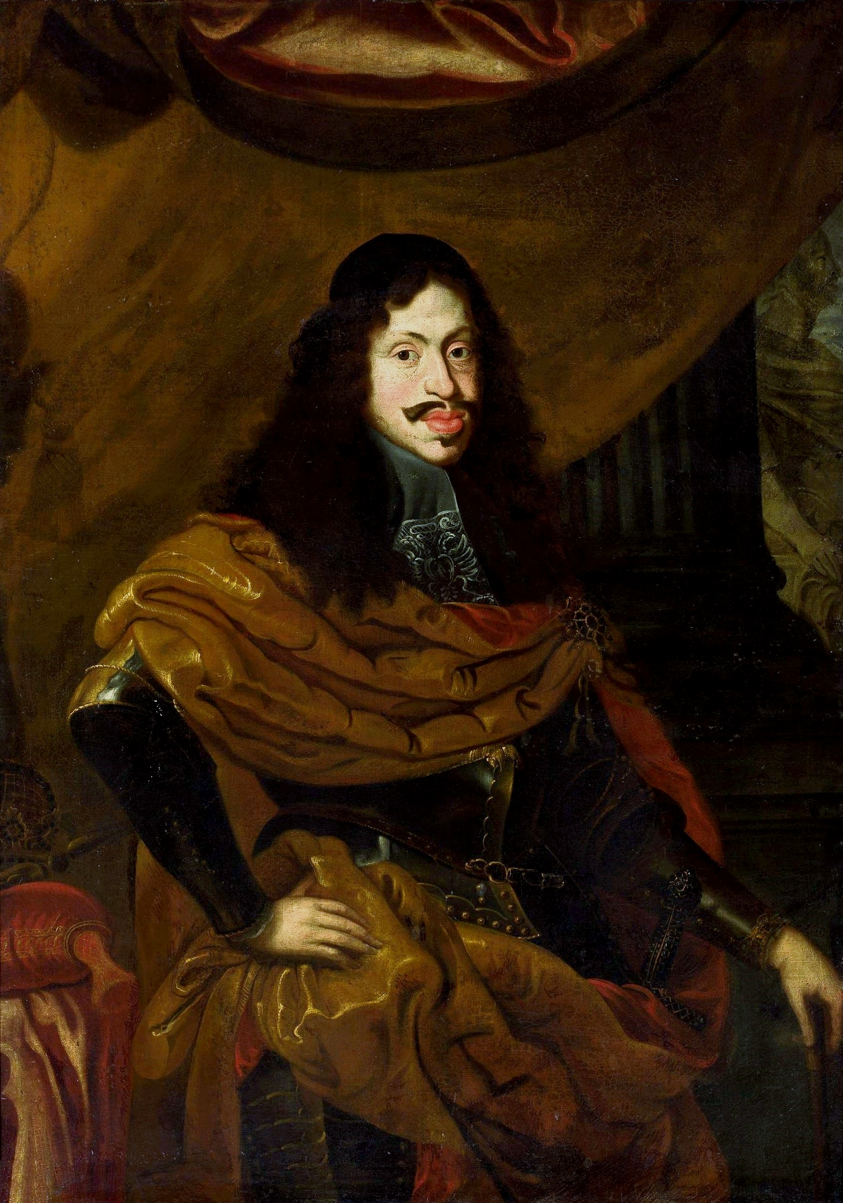 The portrait looks to be a derivative copy after a painting by Benjamin von Block, official portraitist of Leopold I